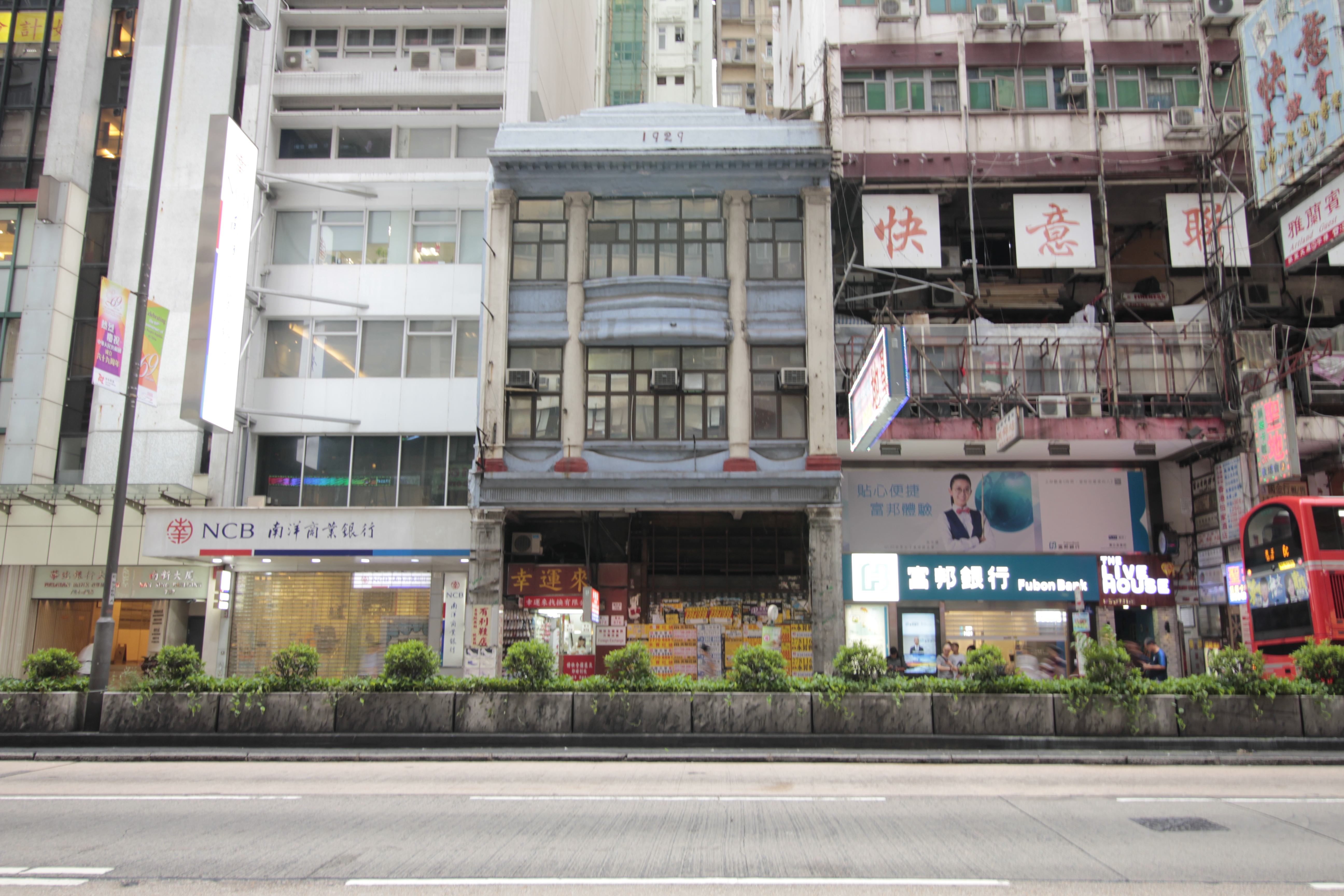 729 Nathan Road is a pre-war tenement house located in Mong Kok. It was built in 1929 with only 3 floors, Greek orders were used as one of the architectural elements. It has now been listed as the Level 3 Graded Historic Building in Hong Kong.